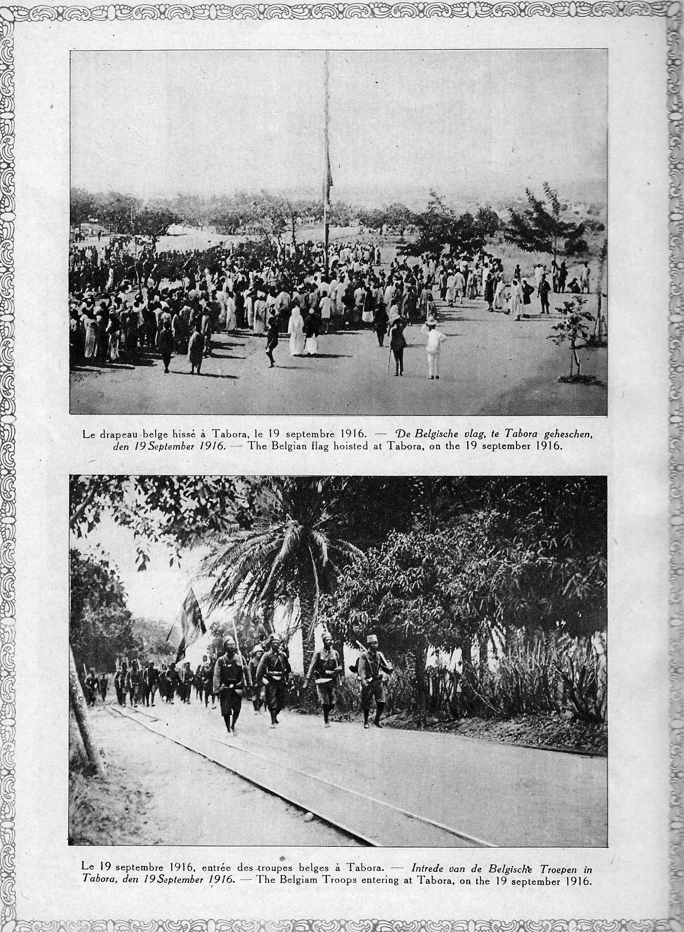 The takeover of Tabora by the Belgian army